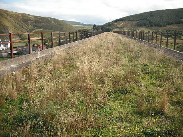 The north end of Shankend Viaduct The dry, well drained and fenced off trackbed has become a wildflower meadow.